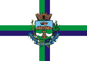 Flag of city of Resende